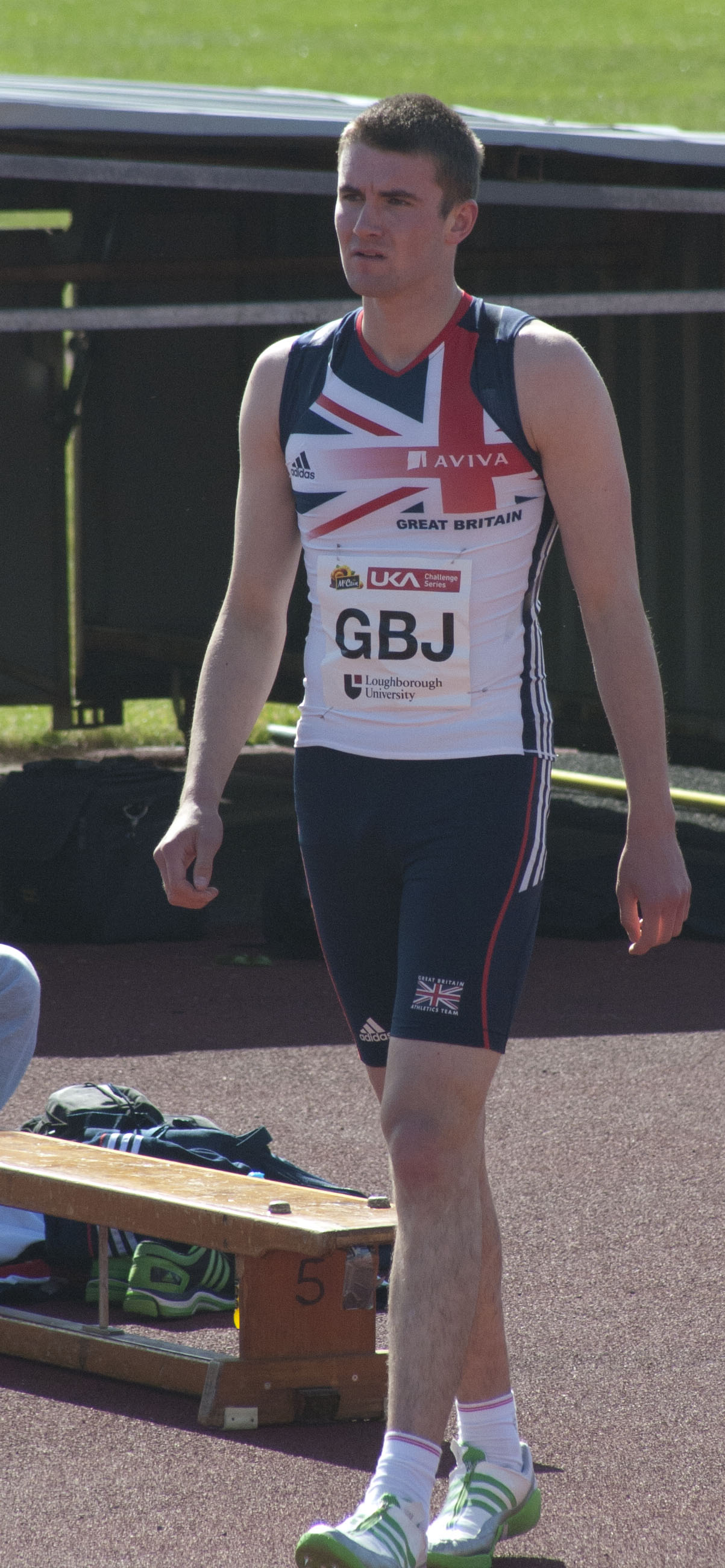 Allan Smith at the Loughborough International Athletics Meeting in Loughborough. Photograph taken by Andrew McVay amateur photographer.(WillBeFine